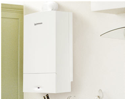 (Individual) Wall mounted gas boiler